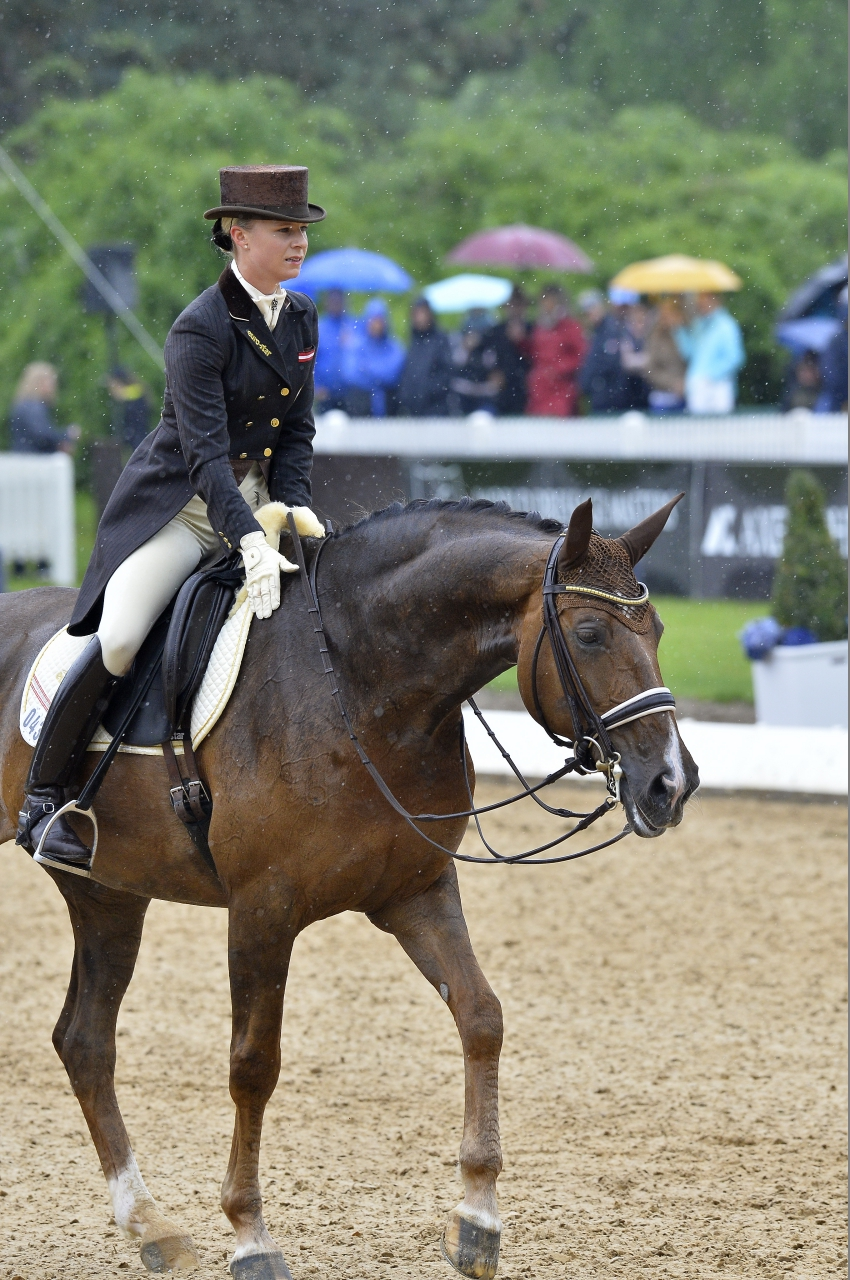 Victoria Max-Theurer riding Blind Date, Grand Prix Spécial at the CDI 5* München-Riem 2013